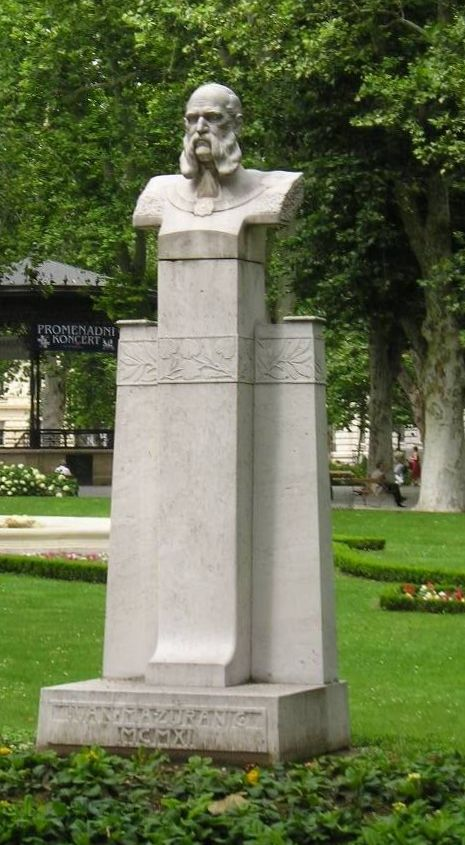 Statue of Ivan Mažuranić in Zagreb by Rudolf Vladec